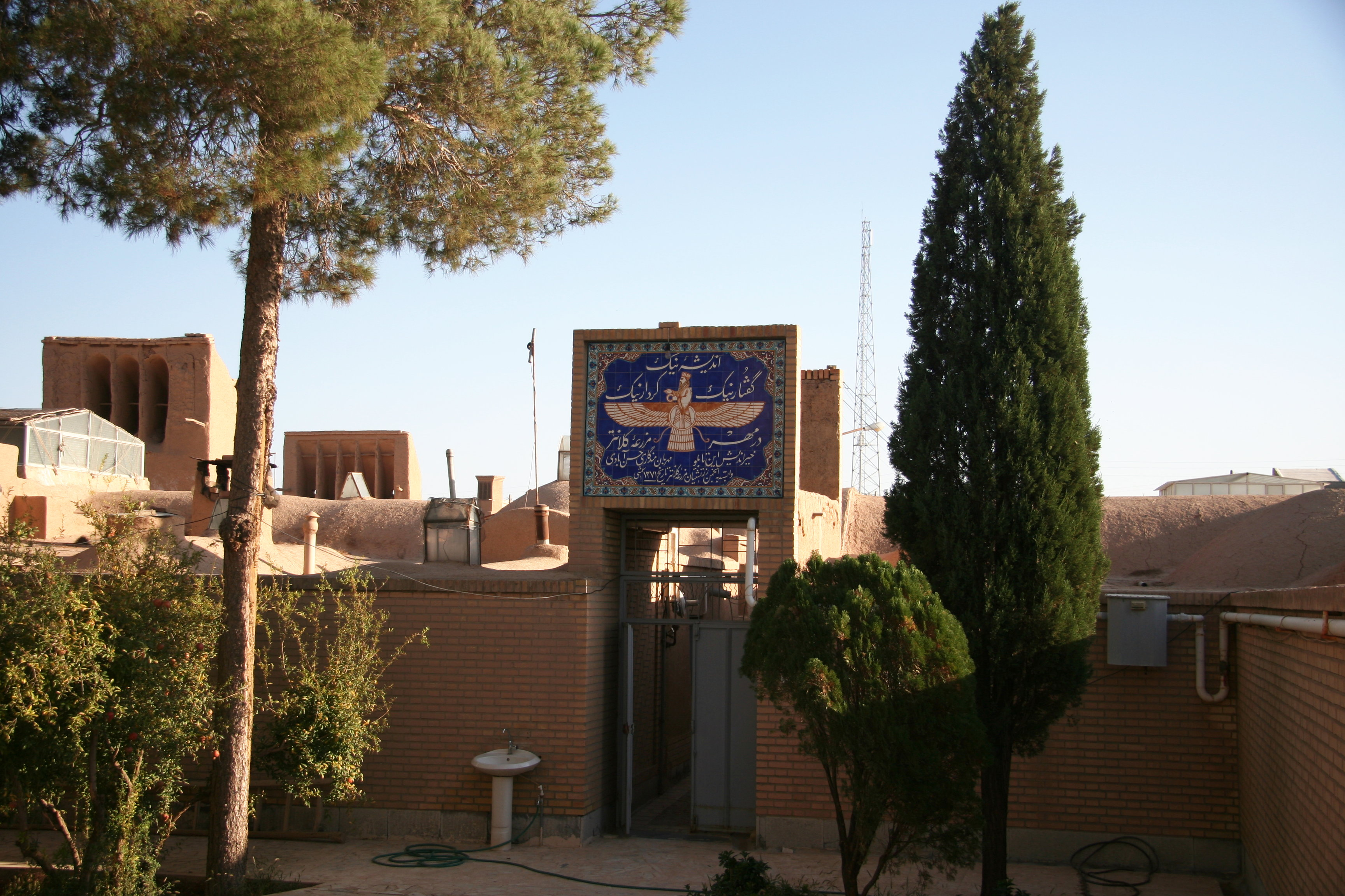 Entrance to the Zoroastrian temple in Mazra Kalantar